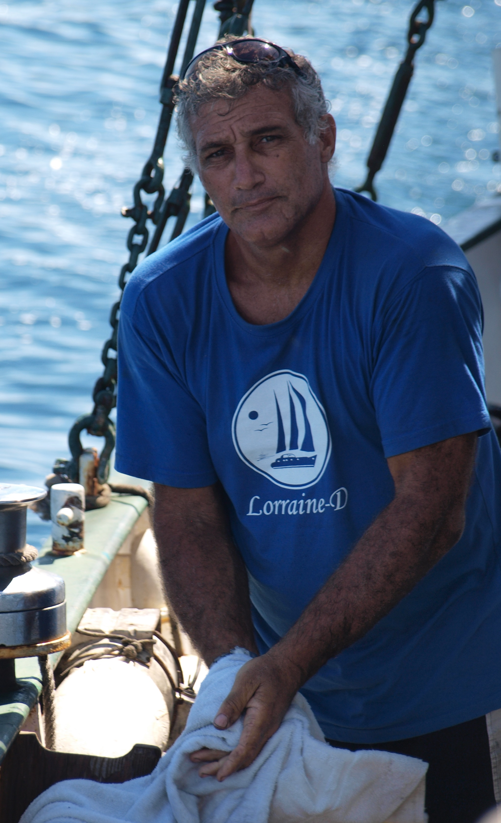 Ziki Shaked, the first captain in the history of Israel, who went around the world under the Israeli flag.